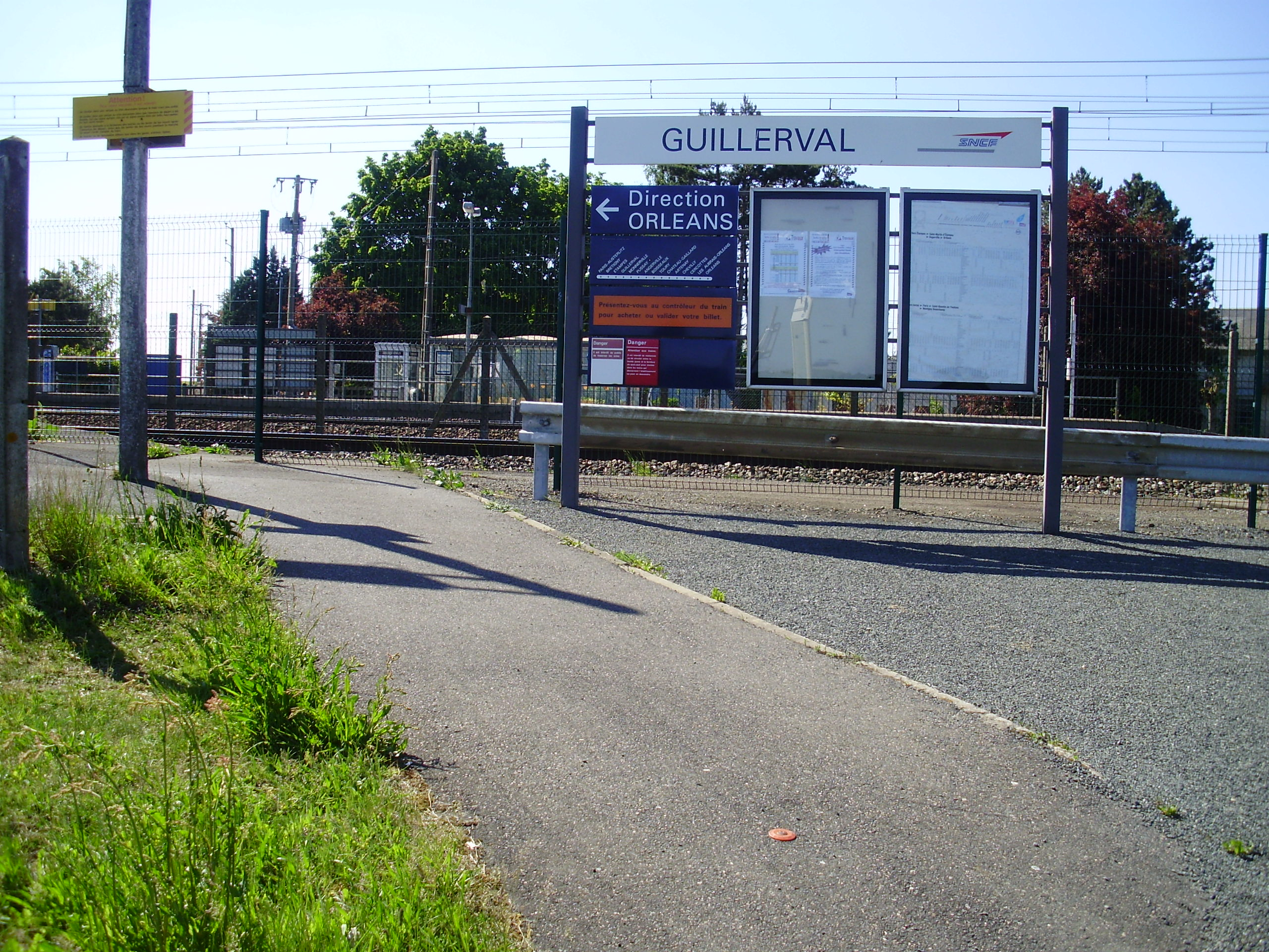 Guillerval station, Essonne, France (side "platform to Orléans")